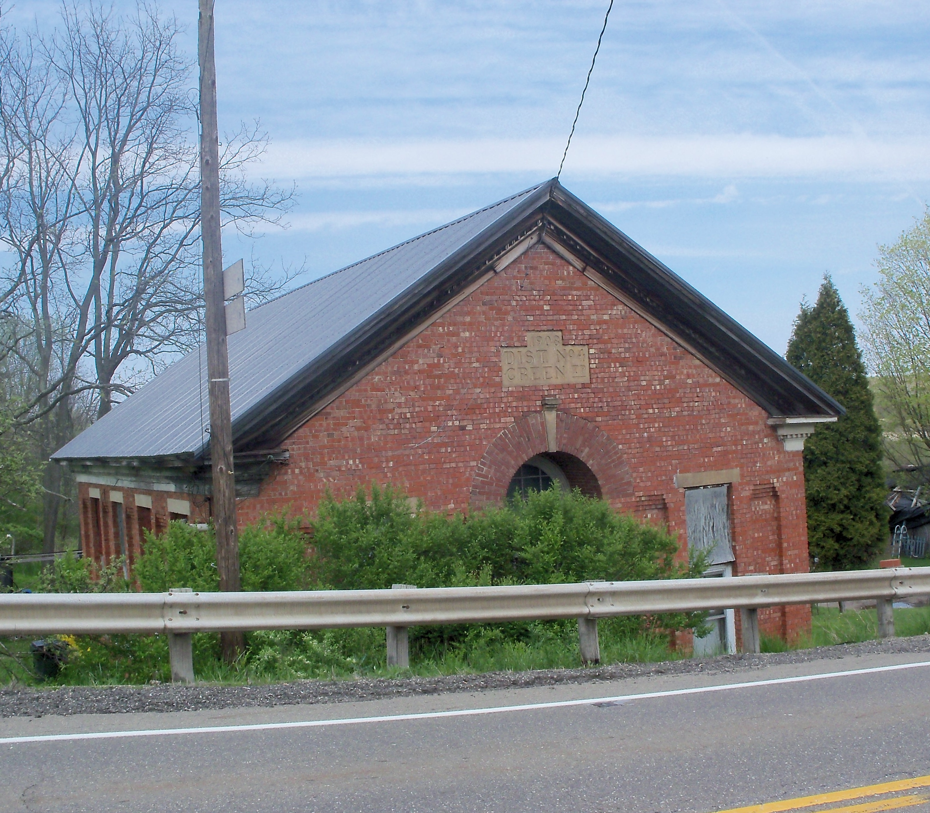 Former number 4 school in Green Township, Mahoning County, Ohio in New Albany, Mahoning County, Ohio